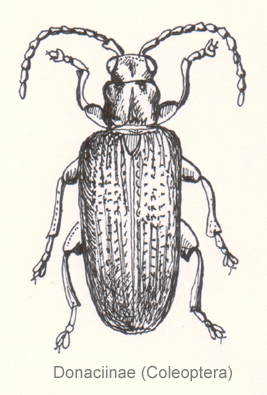 Coleoptera - Chrysomeloidea - Donacia sp.